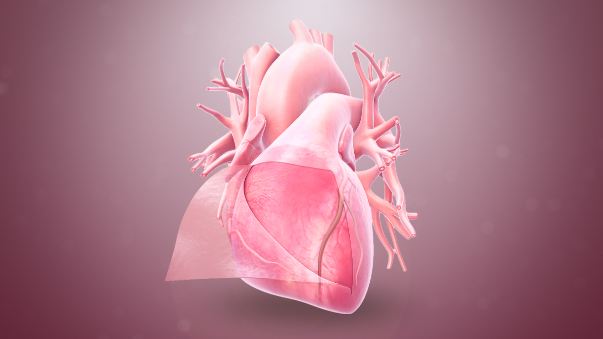 3D medical still showing the pericardium layer that surrounds the heart.